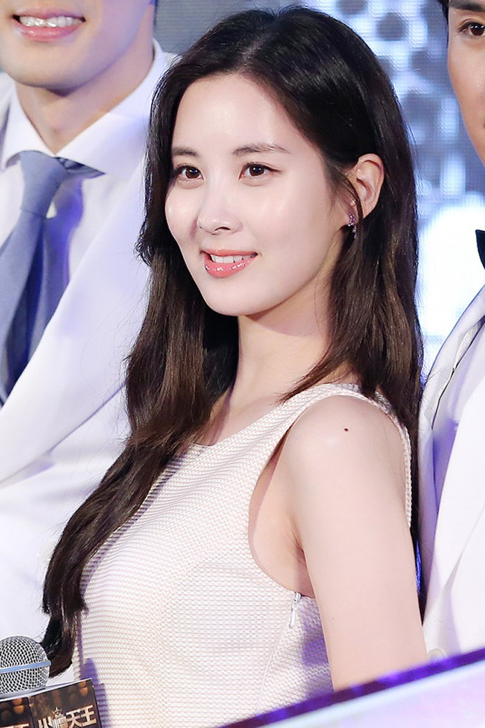 Seohyun at press conference of Canvas the Emperor on June 29, 2016.